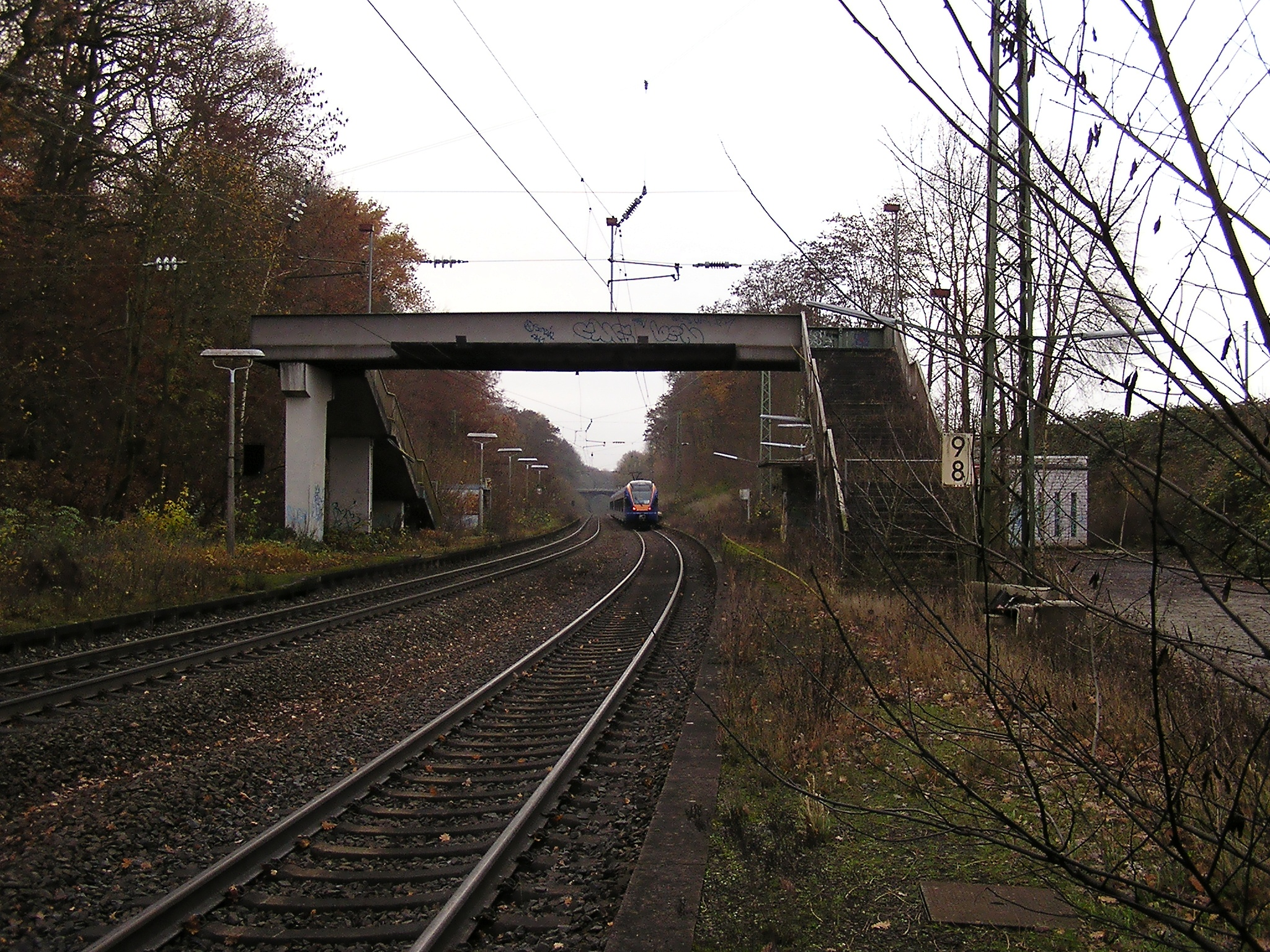 A FLIRT of the cantus traffic corporation passes the disused station Erbstadt-Kaichen on the Friedberg-Hanau Railway